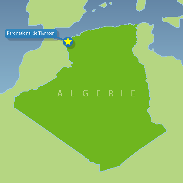 Map of National parks of Algeria, Tlemcen National park